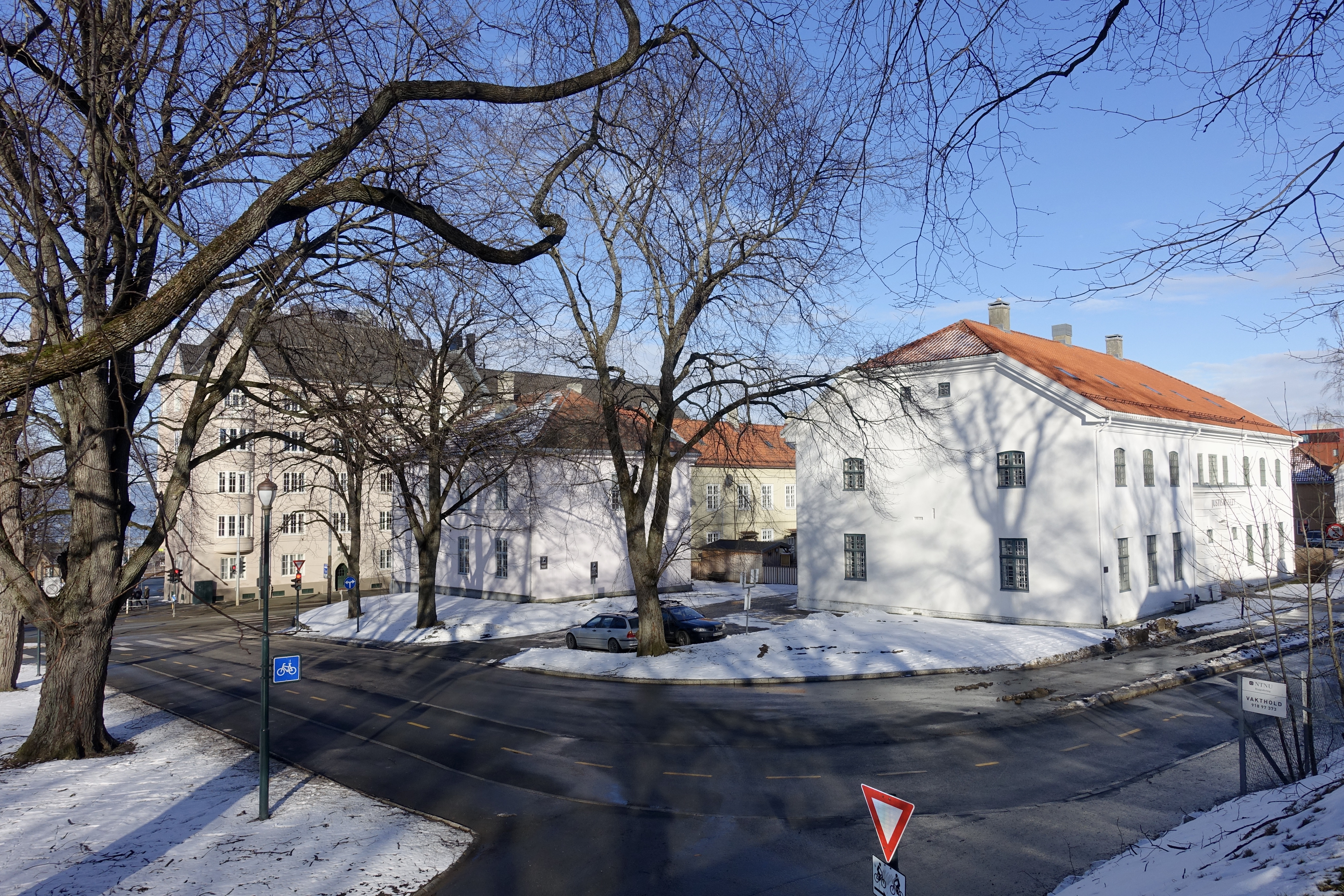 Norwegian National Museum of Justice (Norwegian: Justismuseet), a public museum in Trondheim, Norway exhibiting artifacts from the country's penal justice and law enforcement history. The building was built as a prison in 1833.